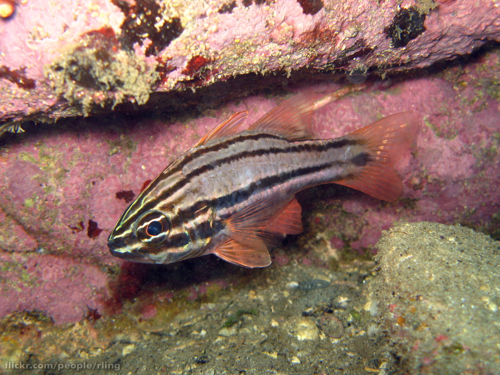 A Sydney Cardinalfish (Apogon limenus). Fairy Bower, Manly, NSW